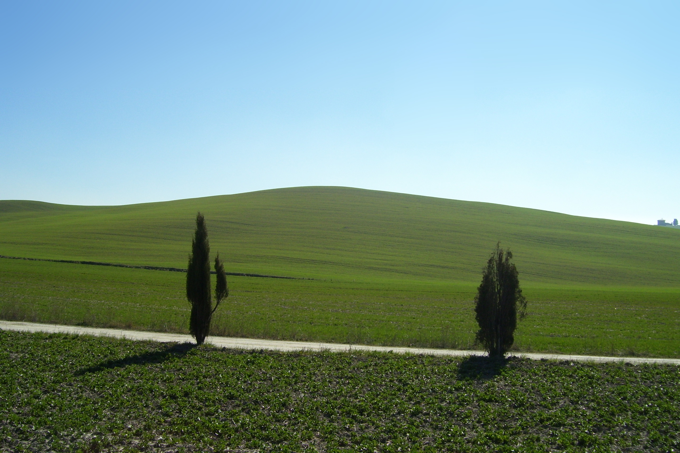 Hilly landscape in Val d'Orcia.